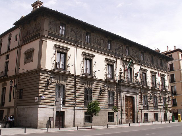 Palacio de Abrantes. 86 Calle Mayor (street), Madrid (Spain). Built between 1653 and 1655 by architect Juan Maza. First alteration in 1844-45 by Aníbal Álvarez Bouquel. Second alteration between 1888 and 1896 by Luis Sanz Trompeta. Since 1939 it's the venue of the Italian Cultural Institute (Istituto Italiano di Cultura) in Madrid.